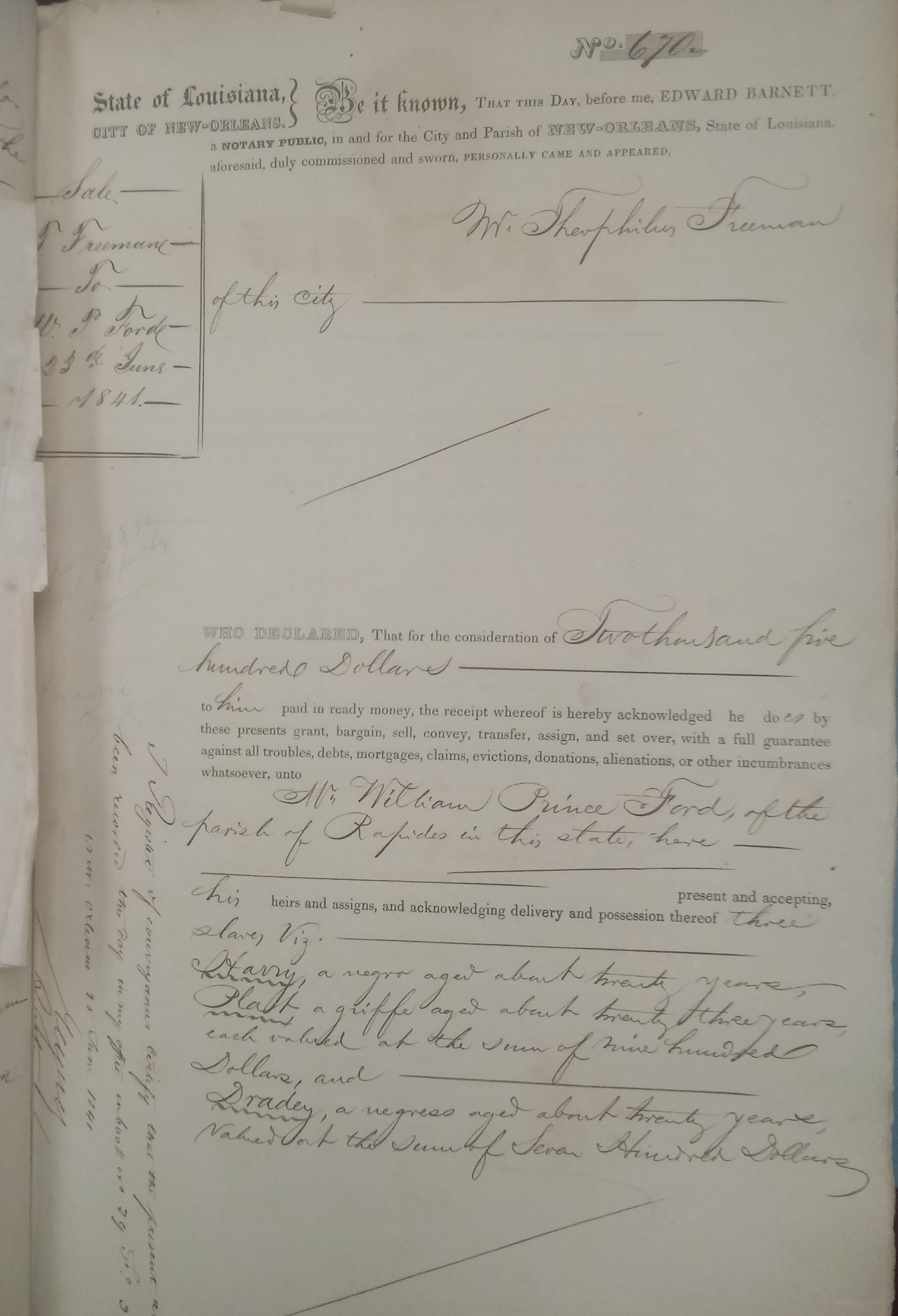 Record of sale by Theophilus Freeman to William Prince Ford of enslaved Harry, Platt (Soloman Northup) and Dradey (Eliza), June 23, 1841. New Orleans Notarial Archives